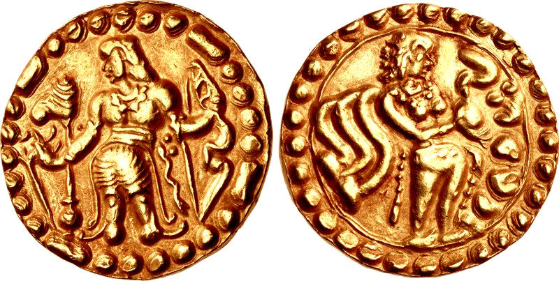 Kaivartas of the Varendras circa 640-730 CE. AV Dinar (20mm, 5.84 g, 2h). "Sankh shell standard" series. Archer standing facing, head left, holding bow in right hand, arrow in left; standard topped by large sankh shell to left / Goddess standing right with flowing drape; pseudo-characters on right.